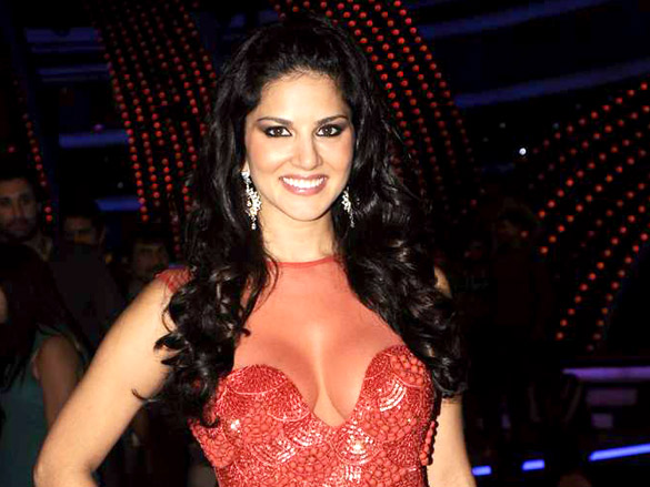 Sunny Leone at Grand finale of 'Bigg Boss Season 5'